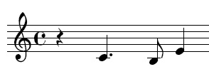 Main motif of Les Préludes by Franz Liszt